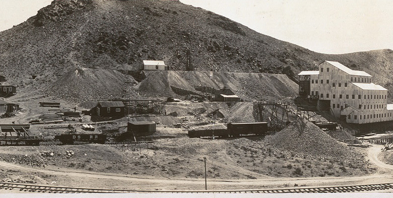 Panorama of Montgomery Shoshone Mine near Rhyolite, Nevada, cropped by User:Finetooth to show the middle third of the panorama Montgomery Mountain is in the background. The processing mill is to the right. The spur line of the Las Vegas and Tonopah Railroad is in the foreground.